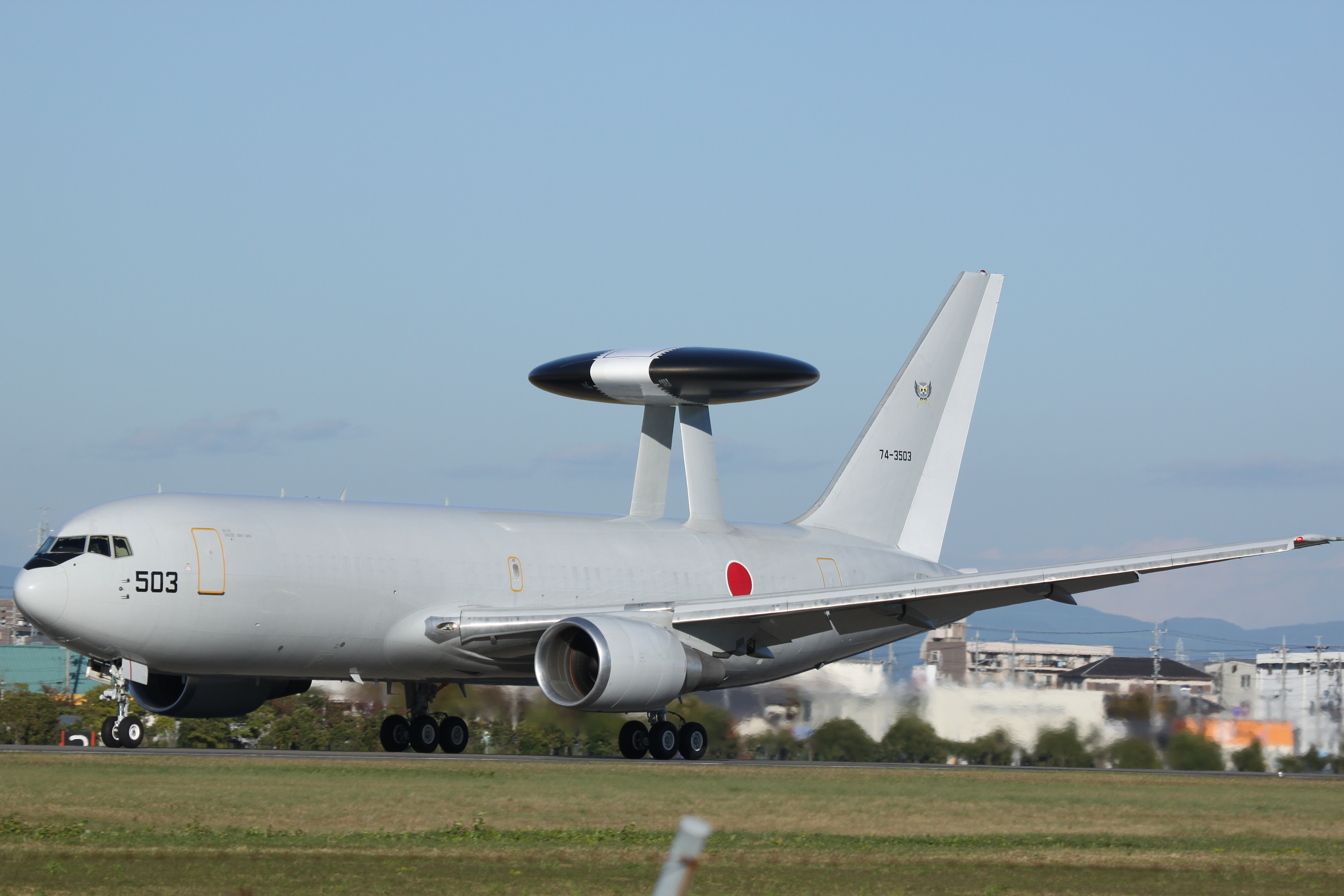 All three of the Japanese AWACS were at home when we visited. They also have four tanker versions and yes, we saw all of those too!